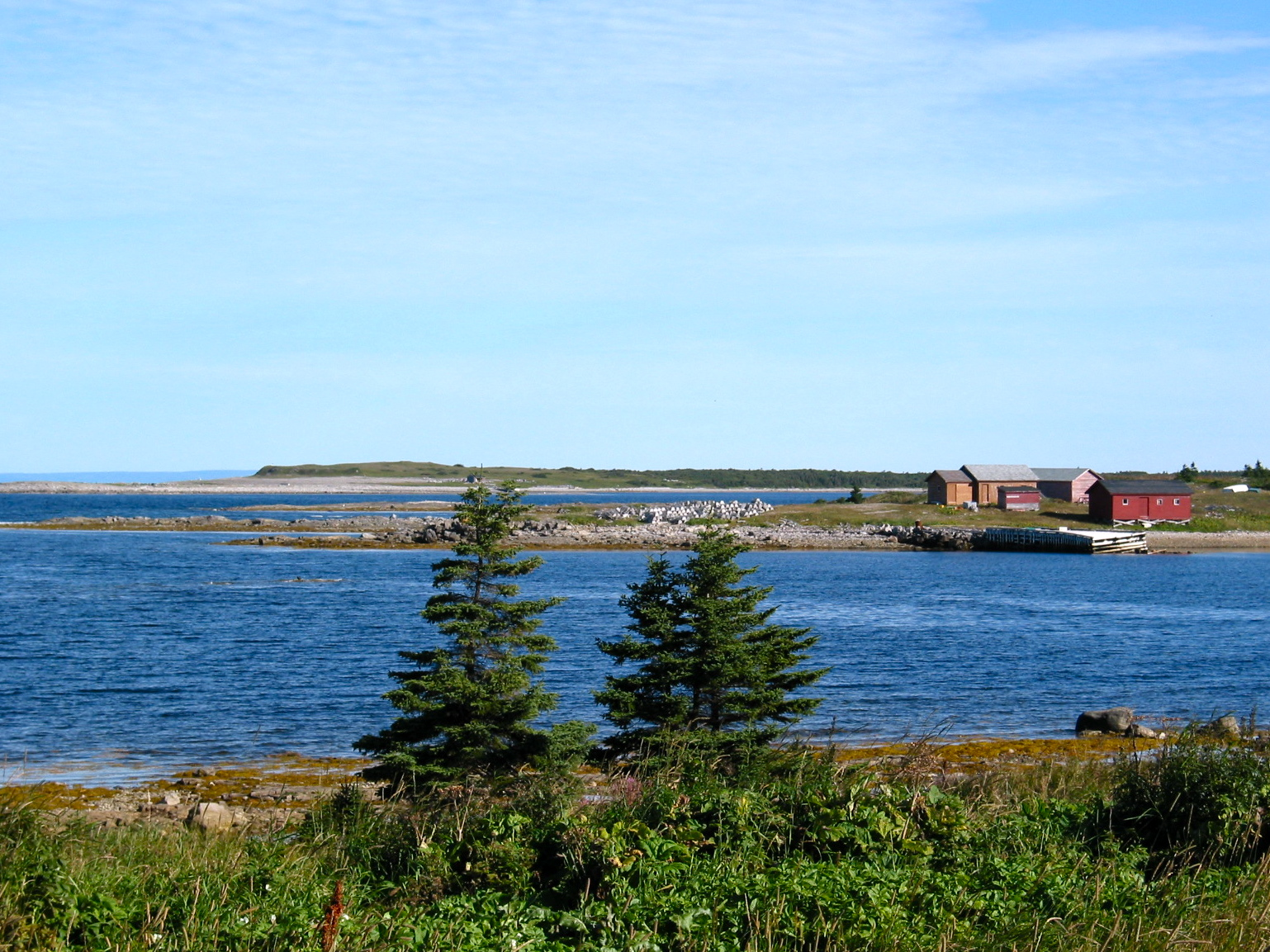 View of Brig Bay harbor looking across Morris Point to Darby's Island - Morris Pt probably named after James Cook's cook named Morris?